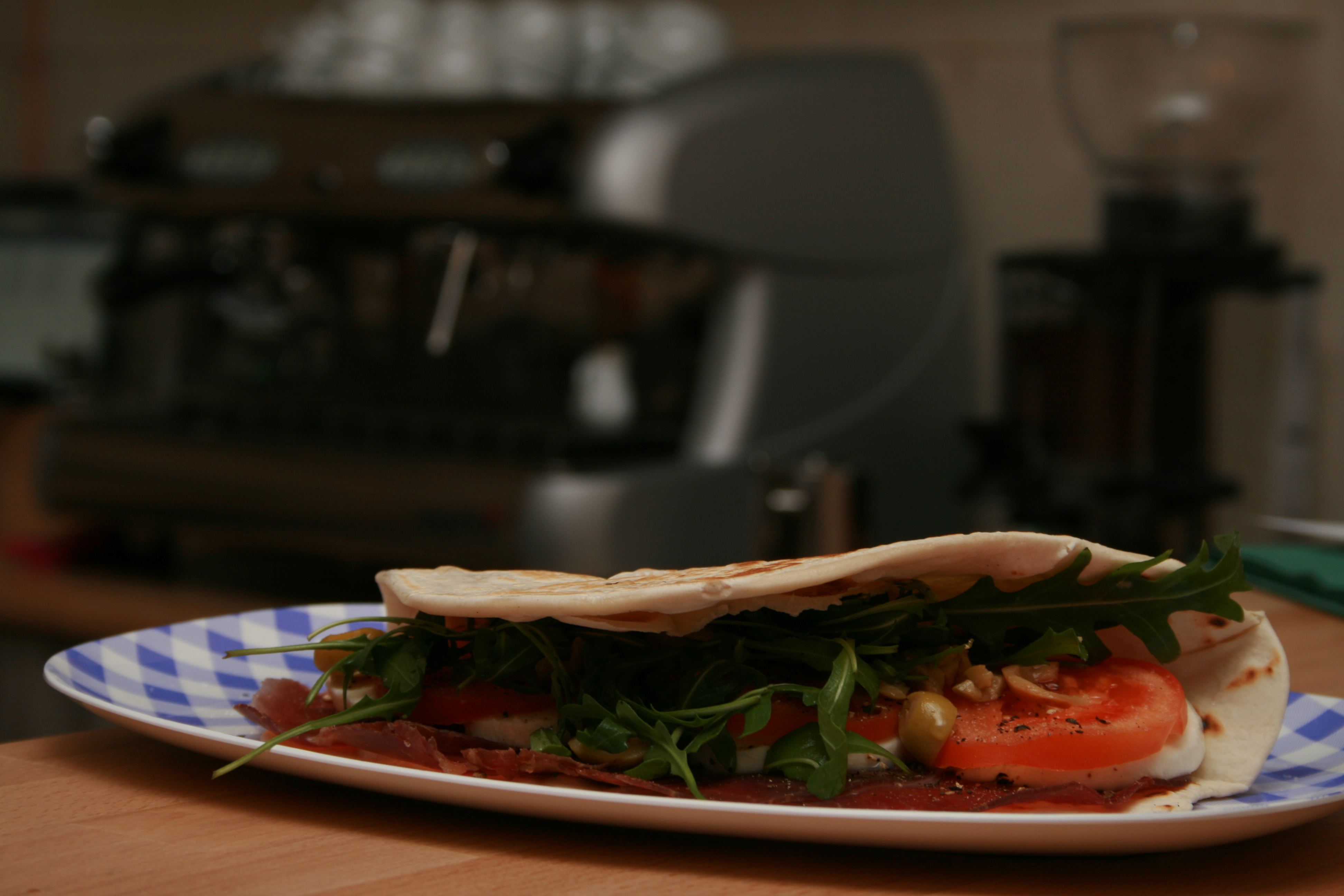 Piadina with bresaola, mozzarella, tomatoe, arugula and olives